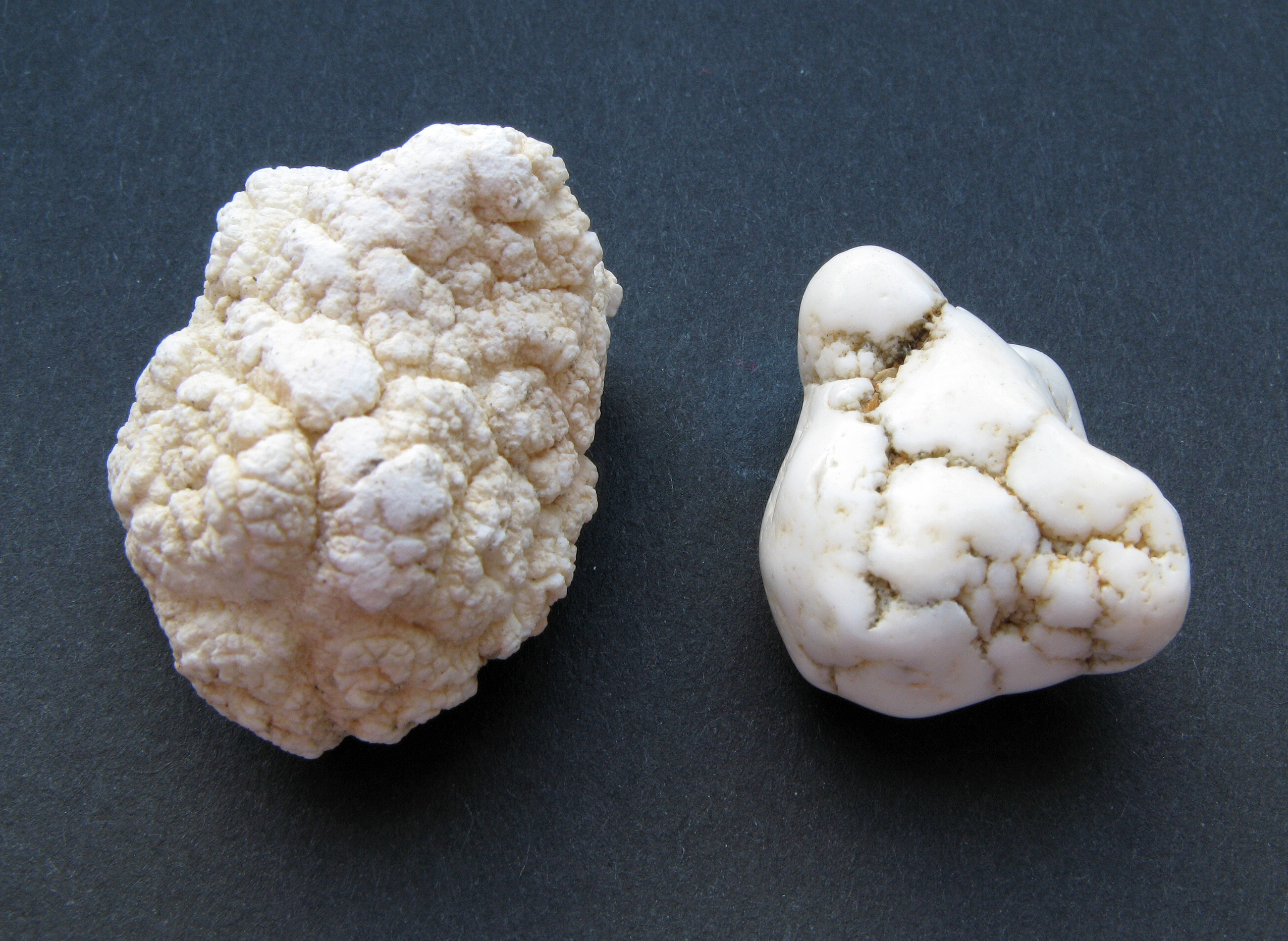 Magnesite, rawstone and tumble-polished stone